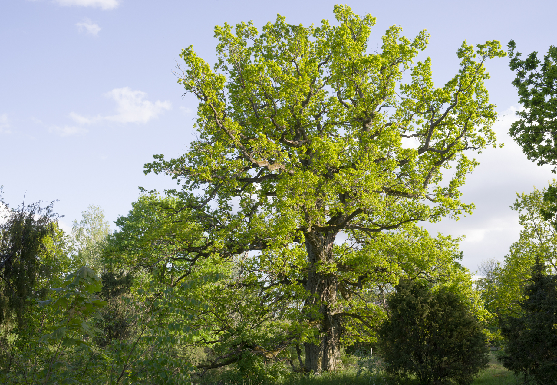 Oak trees dominate this Natural Reserve in the outskirts of Norrköping